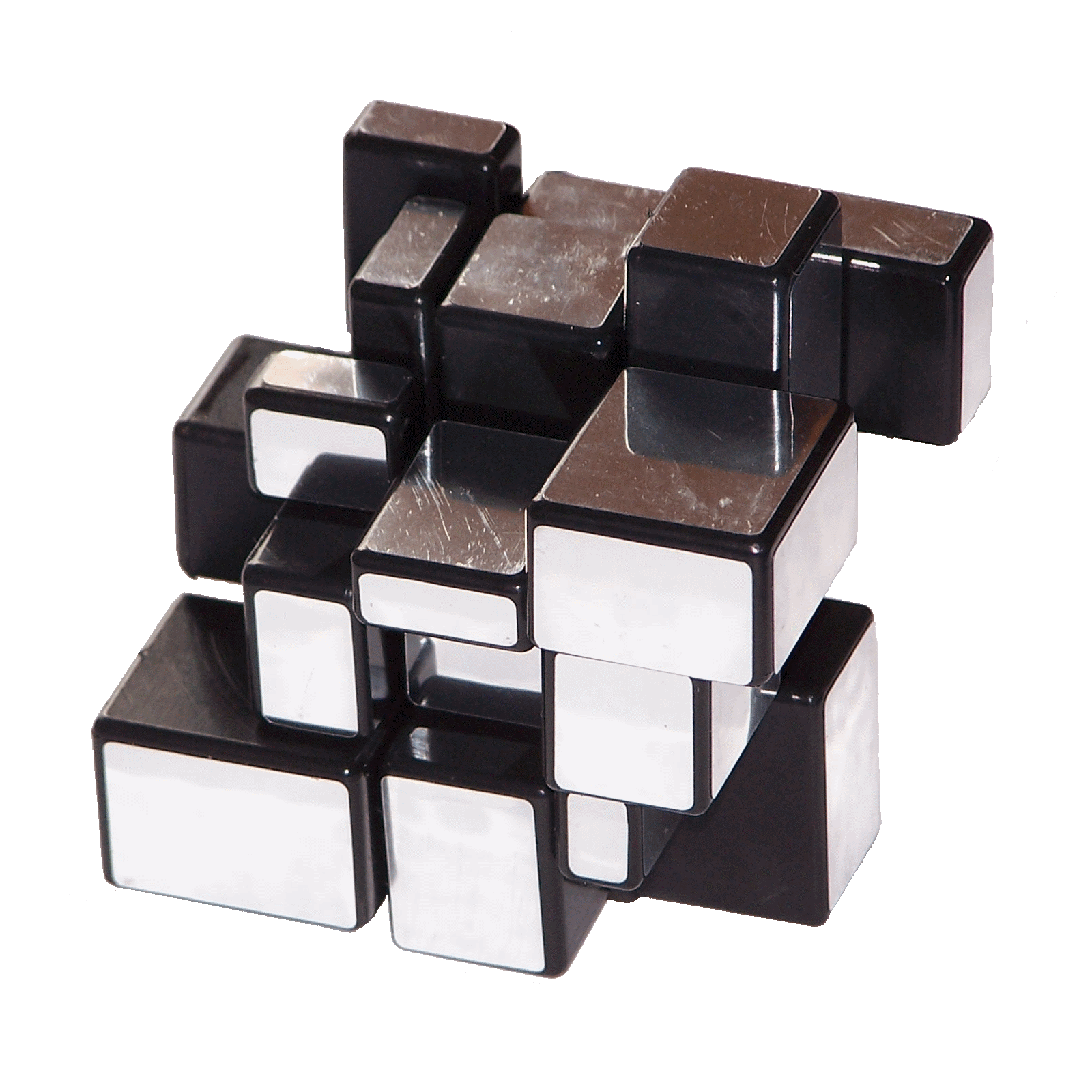 The Mirror Cube is a nearly normal Rubik's Cube. But instead of the diffrent colors, the cubies have a special size. You can solve it like a normal 3×3×3 Rubik's Cube. The picture shows a scrambled “Mirror Cube Silver”